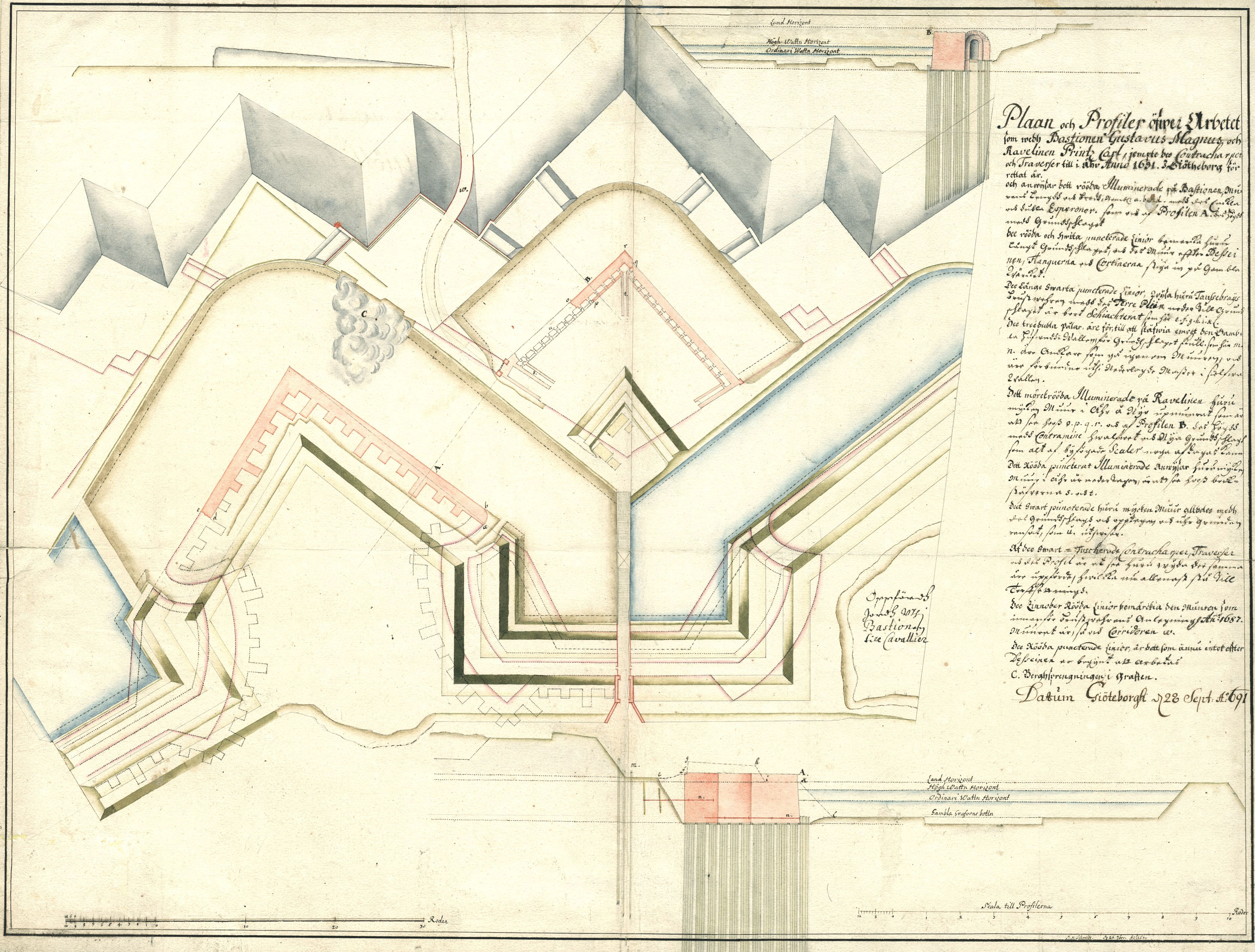 Plan and profiles of defensive work done at Gothenburg, Sweden 1691, in the area of the present day bridge Kungsportsbron.